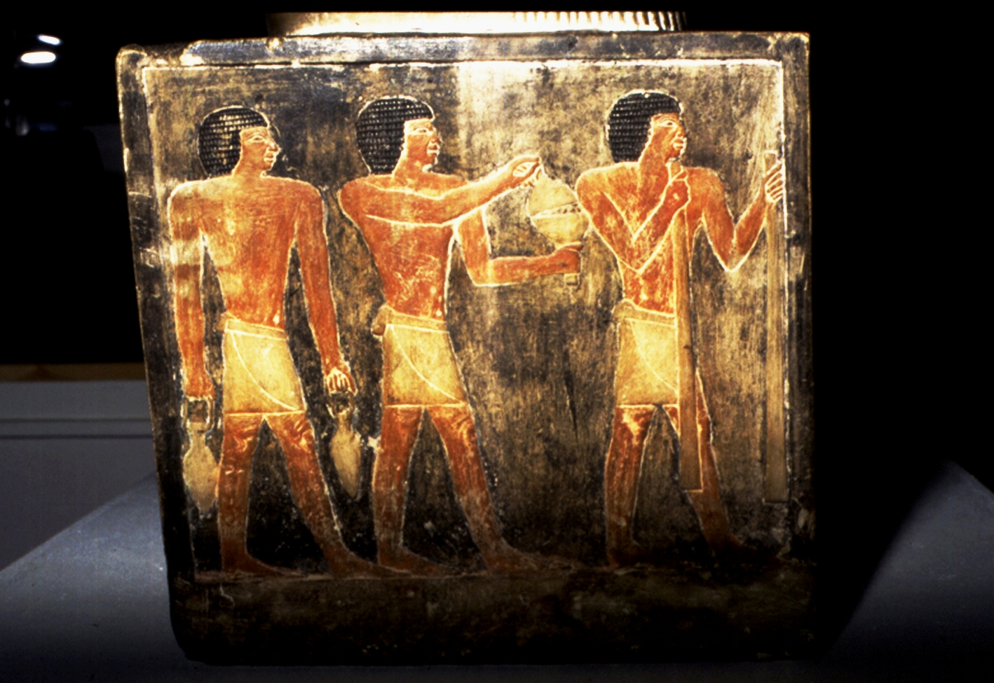 Porteuses d'offrandes, statue de sekhemka